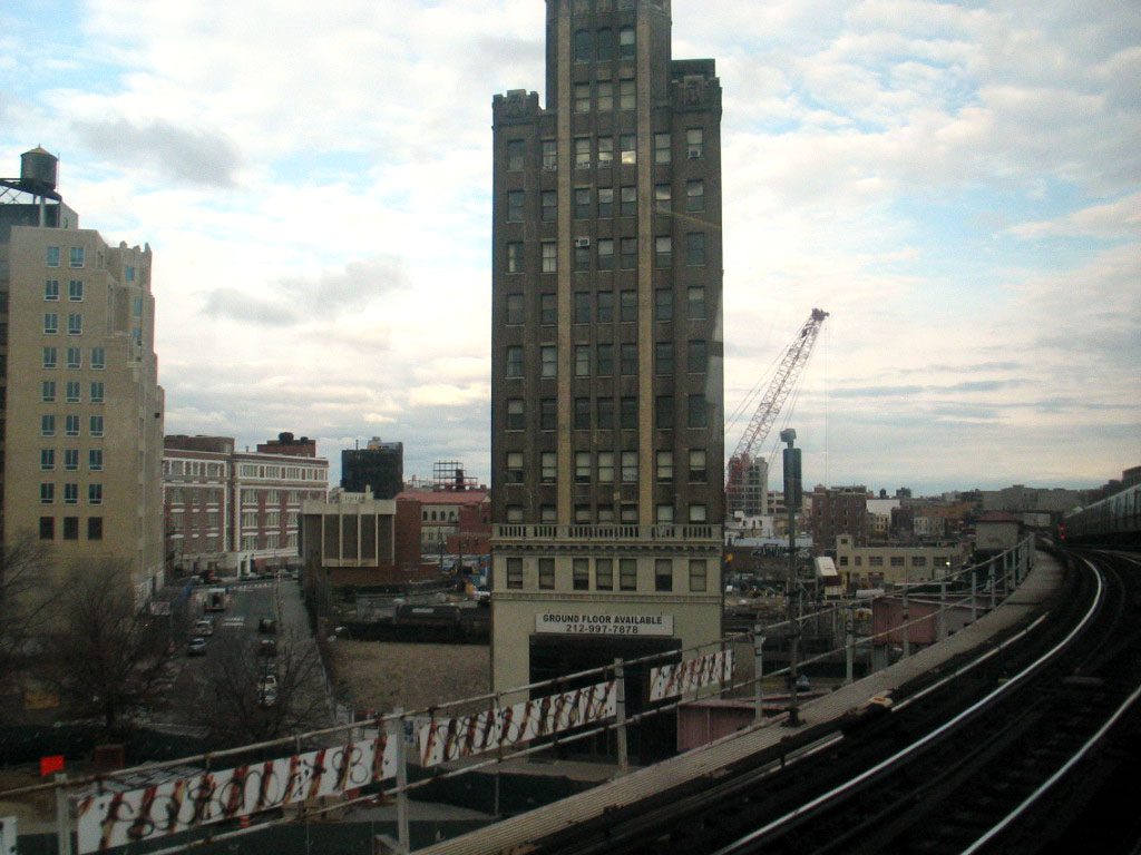 Entering BMT Astoria Line